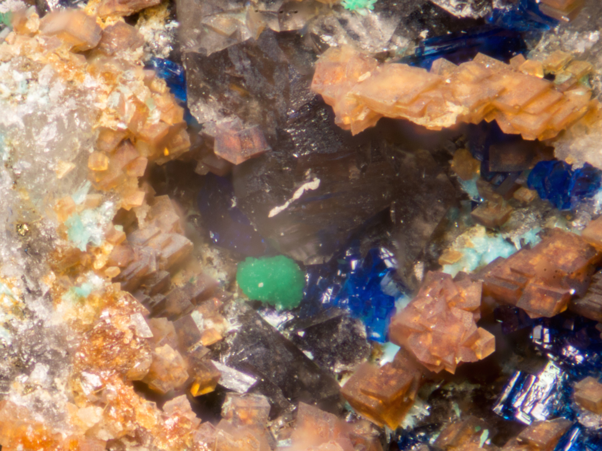 Azurite and malachite, over fluorite, from Berta Quarry